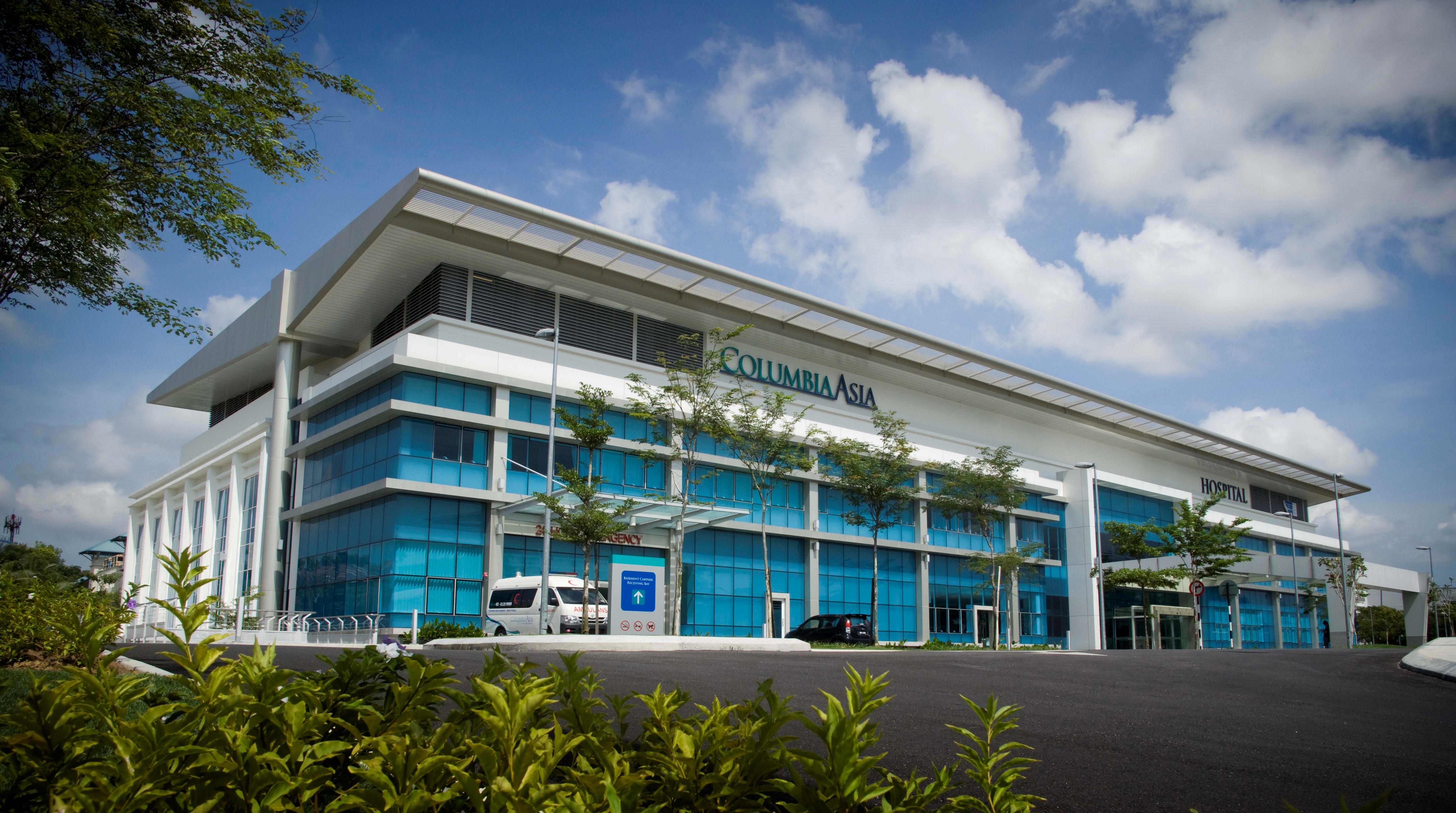 Columbia Asia Hospital - Bukit Rimau, Malaysia